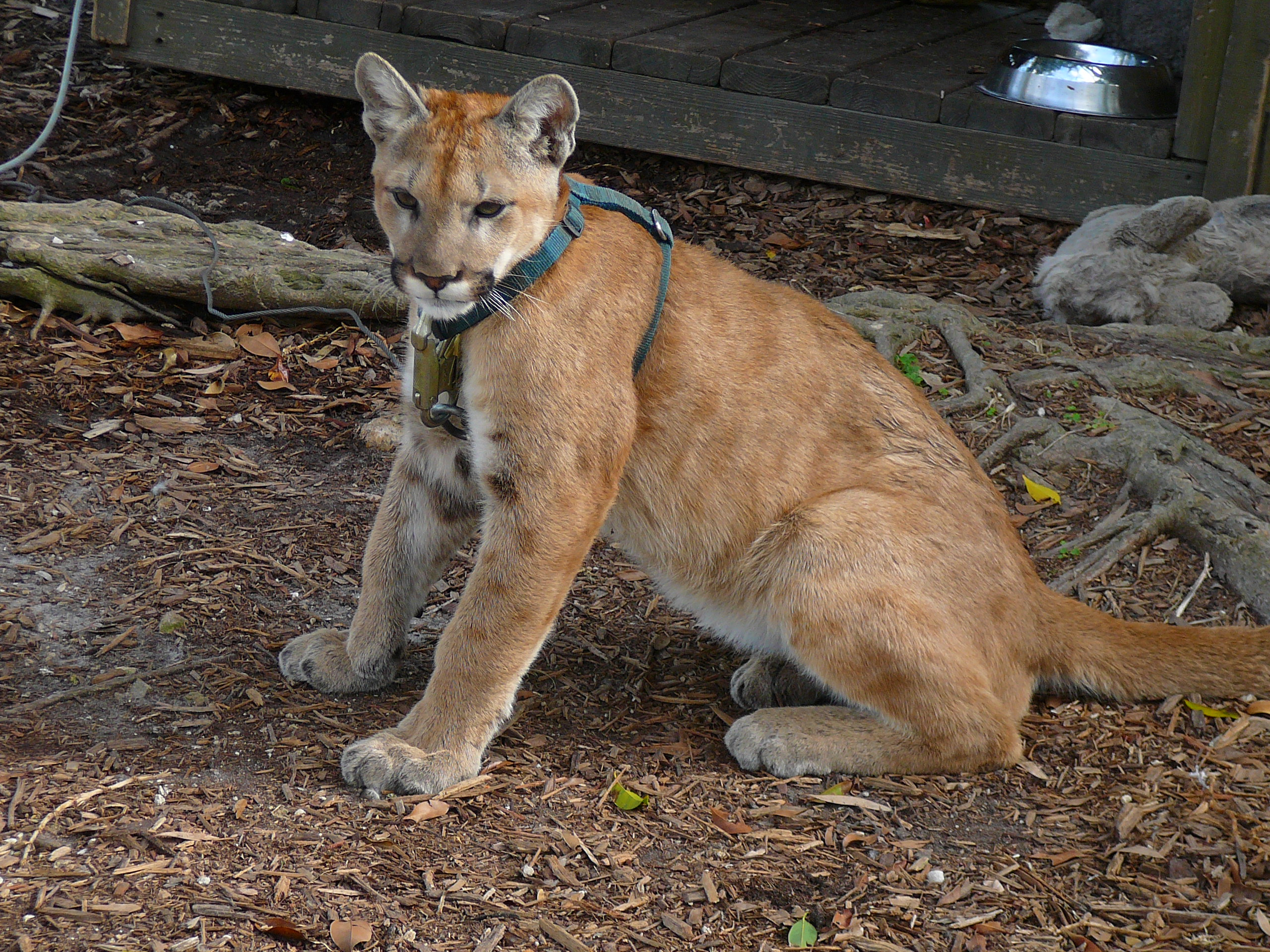 Juvenile male Florida Panther (Puma concolor coryi), Sawgrass Recreational Park, Florida